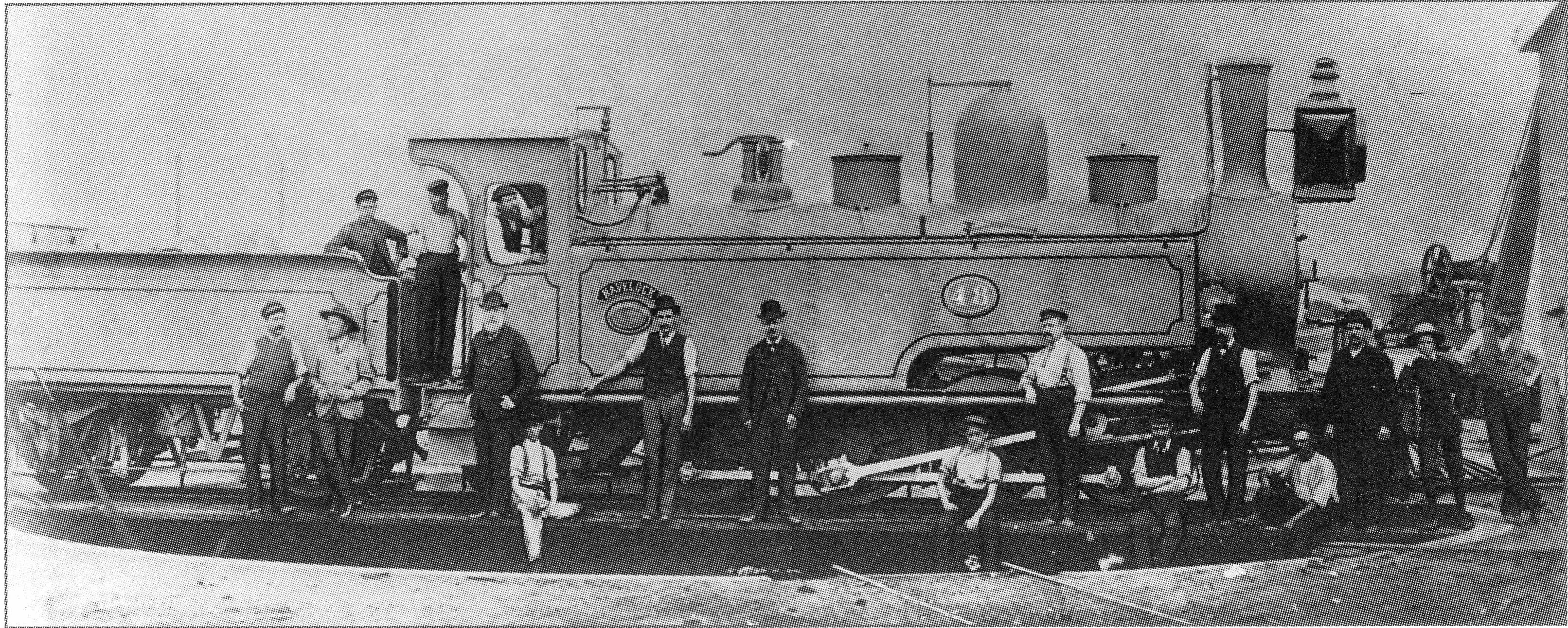 Natal Government Railways 2-8-2TT no. 48 “Havelock”, as built in 1888 before conversion to 4-6-2TT